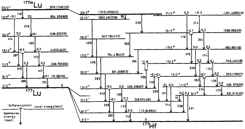 177Lu Energy Diagram. "Figure 4. Decay scheme of 177mLu. Shown are the level energies, spins, and level differences that created the released gamma energies."